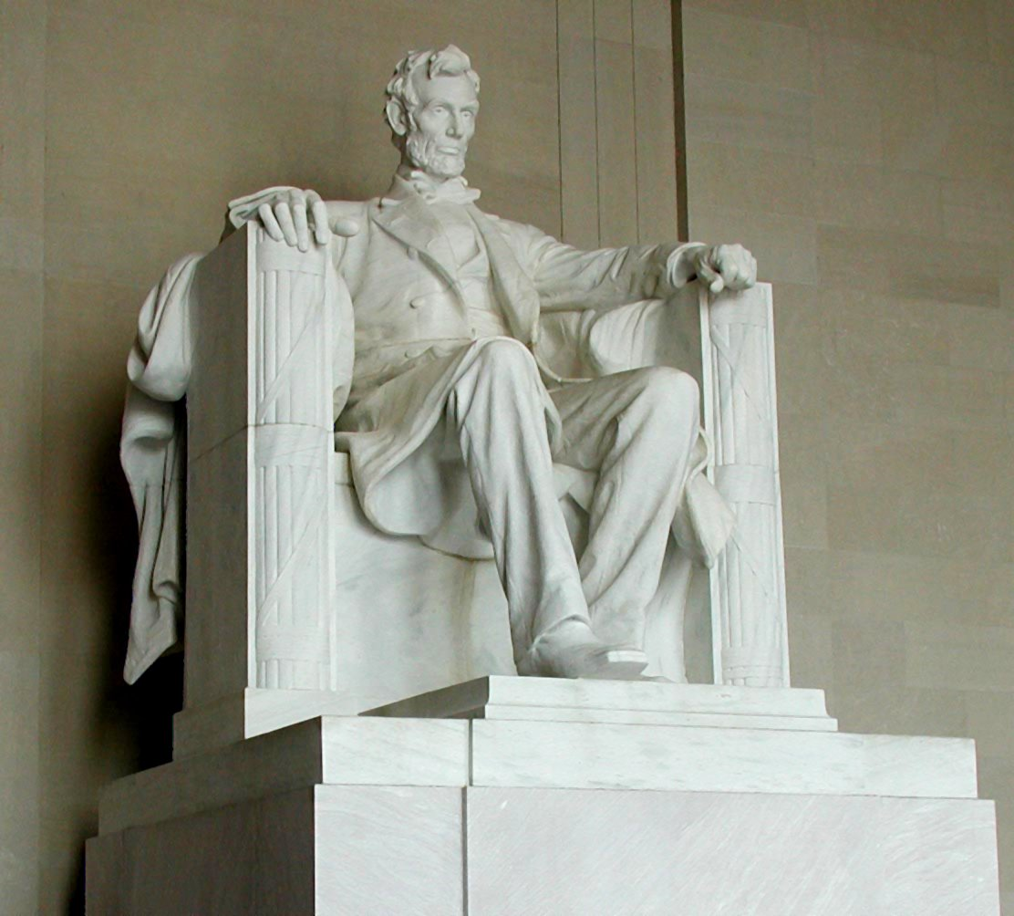 Photograph of the Abraham Lincoln statue by [Attilio Piccirilli for Daniel Chester French] (1920) in the Lincoln Memorial.